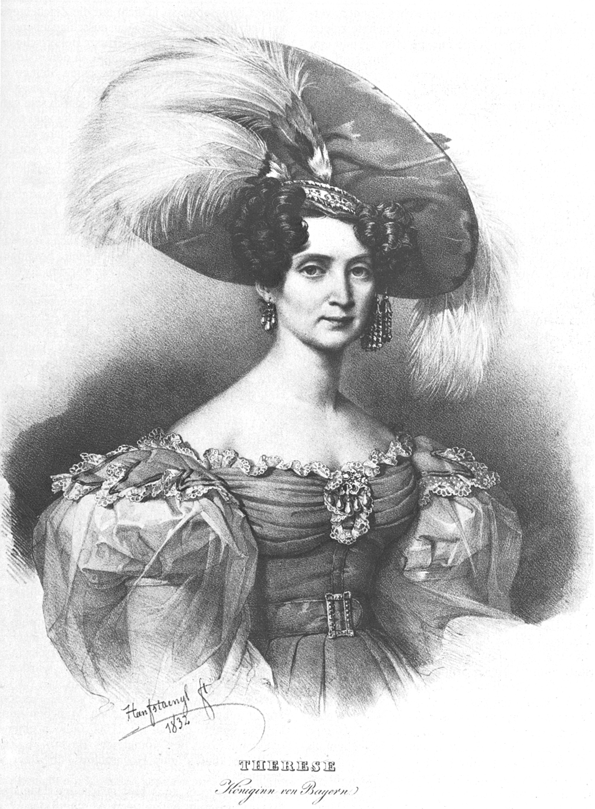 Therese, Königin von Bayern (1792-1854), Lithography